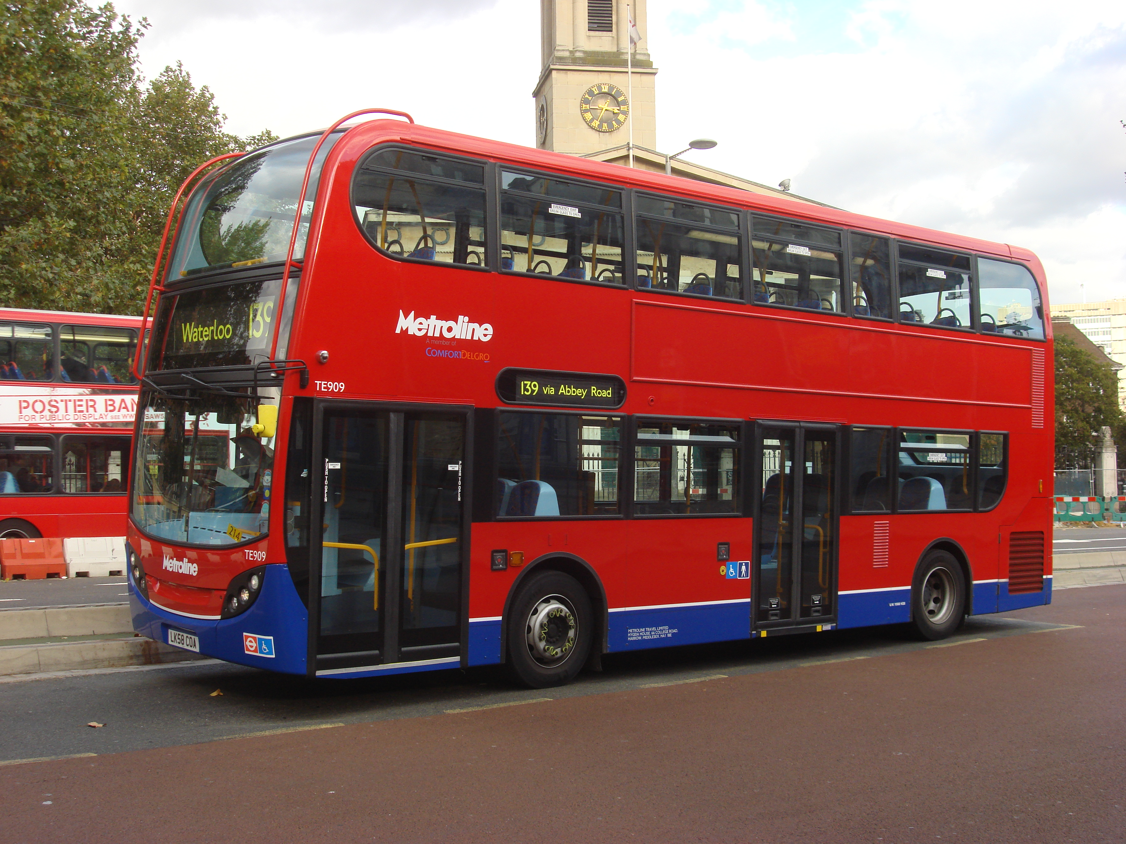 A bus on London Buses route 139.